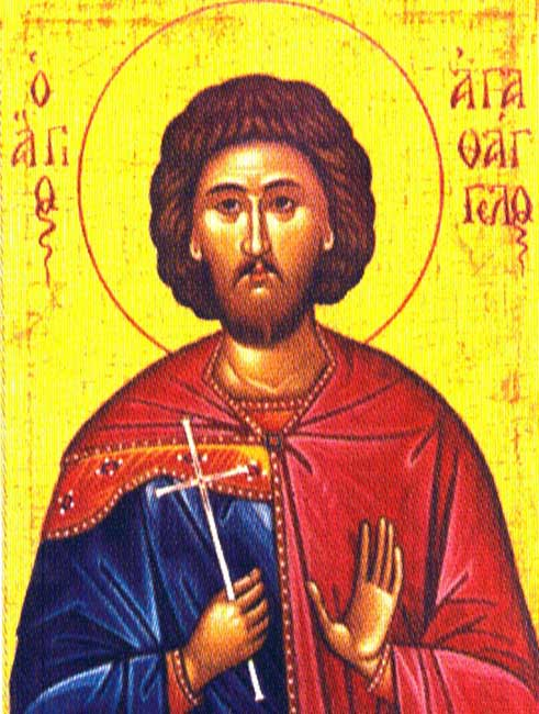 An icon of Saint Agathangelus. From [1].